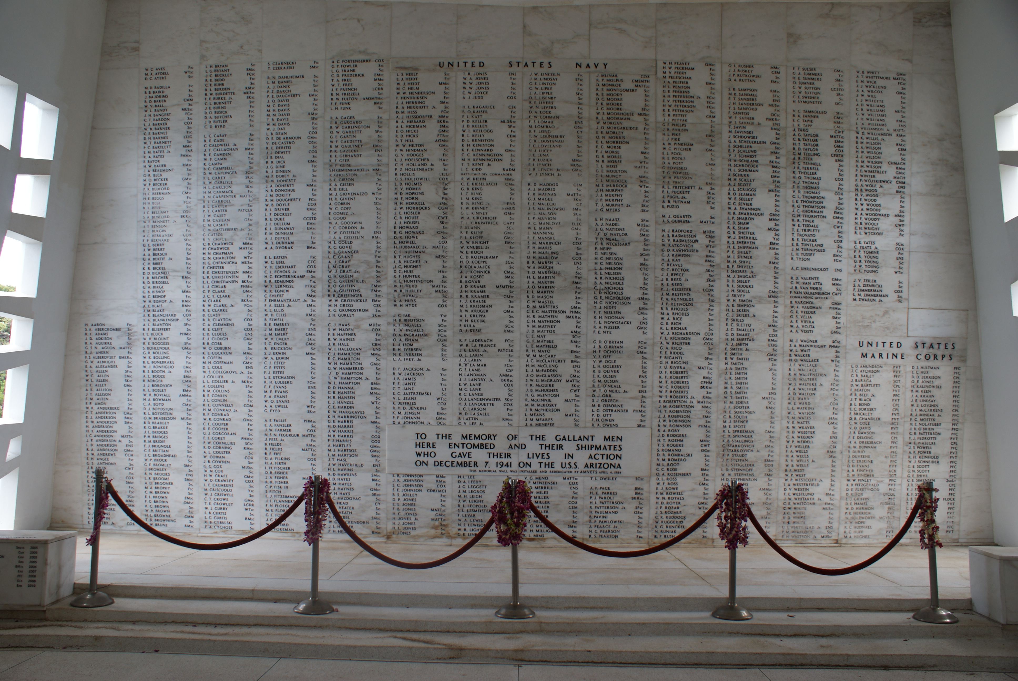 The memorial wall at the USS Arizona Memorial. The inscription in the middle reads: "TO THE MEMORY OF THE GALLANT MEN HERE ENTOMBED AND THEIR SHIPMATES WHO GAVE THEIR LIVES IN ACTION ON DECEMBER 7, 1941 ON THE U.S.S. ARIZONA" The sub-inscription reads: "THIS MEMORIAL WALL WAS INSTALLED AND REDEDICATED BY AMVETS APRIL 4, 1954"